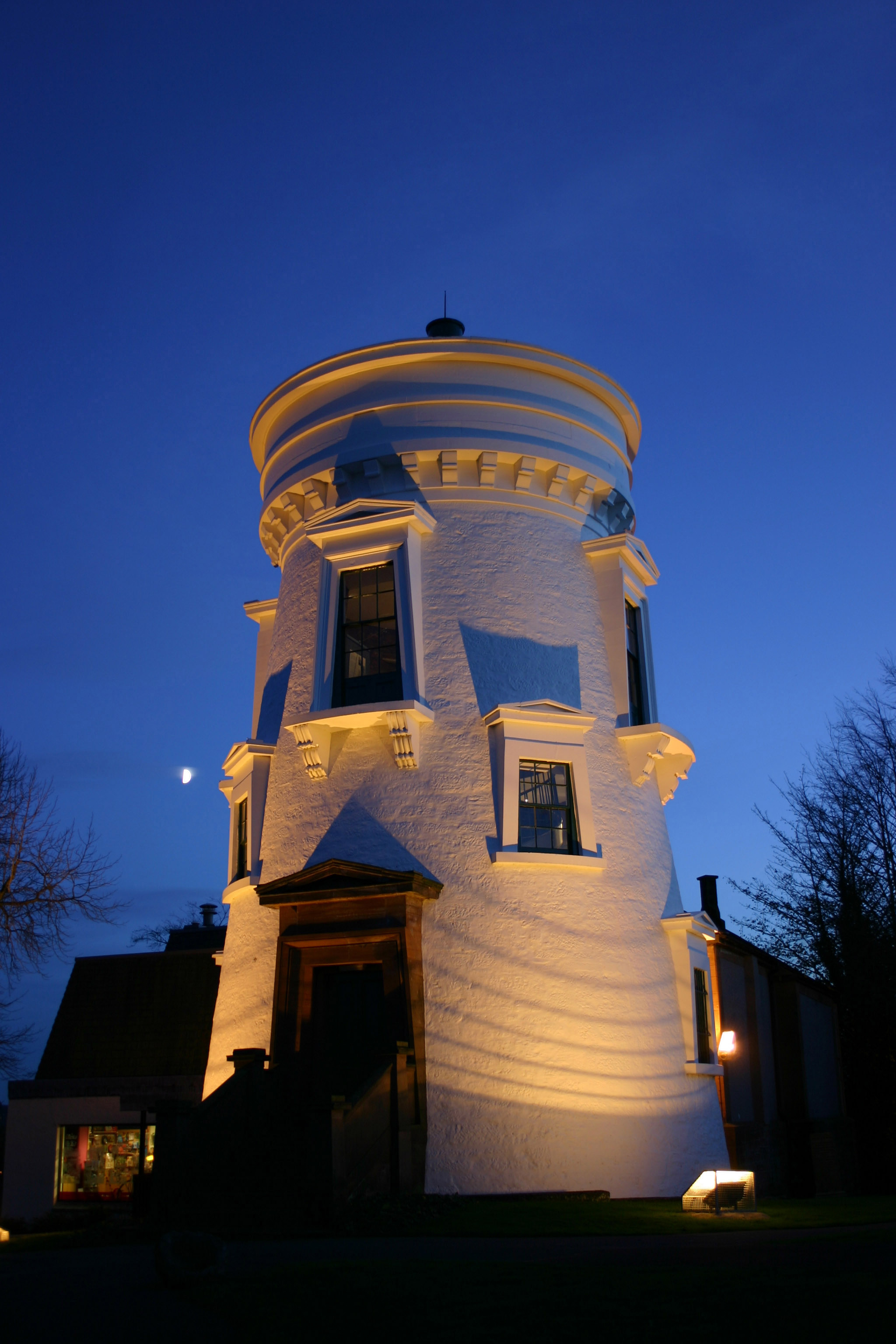 This is an image of the former windmill tower at Dumfries Museum in Scotland which now houses exhibition displays and a Camera Obscura.